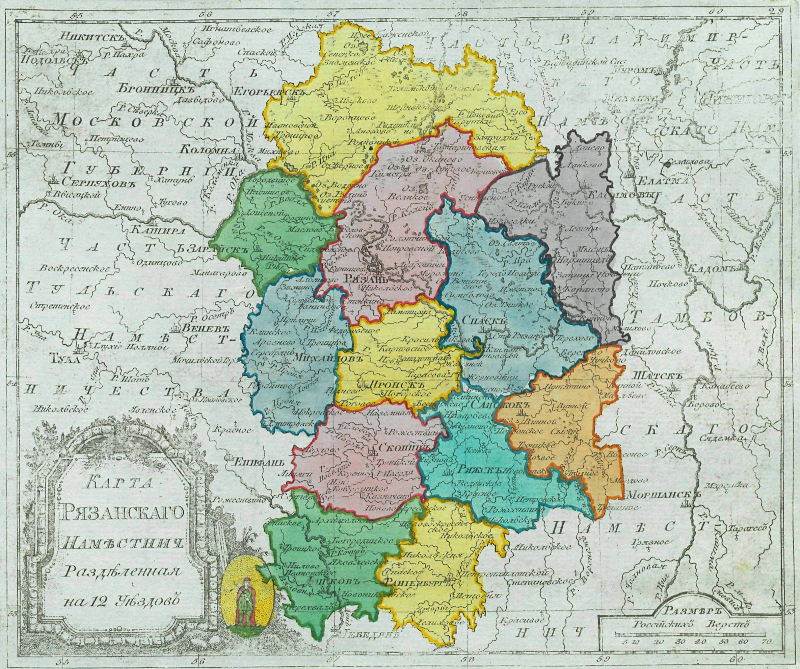 Small atlas of the Russian Empire (1792). Map of Ryazan Namestnichestvo (map 28).